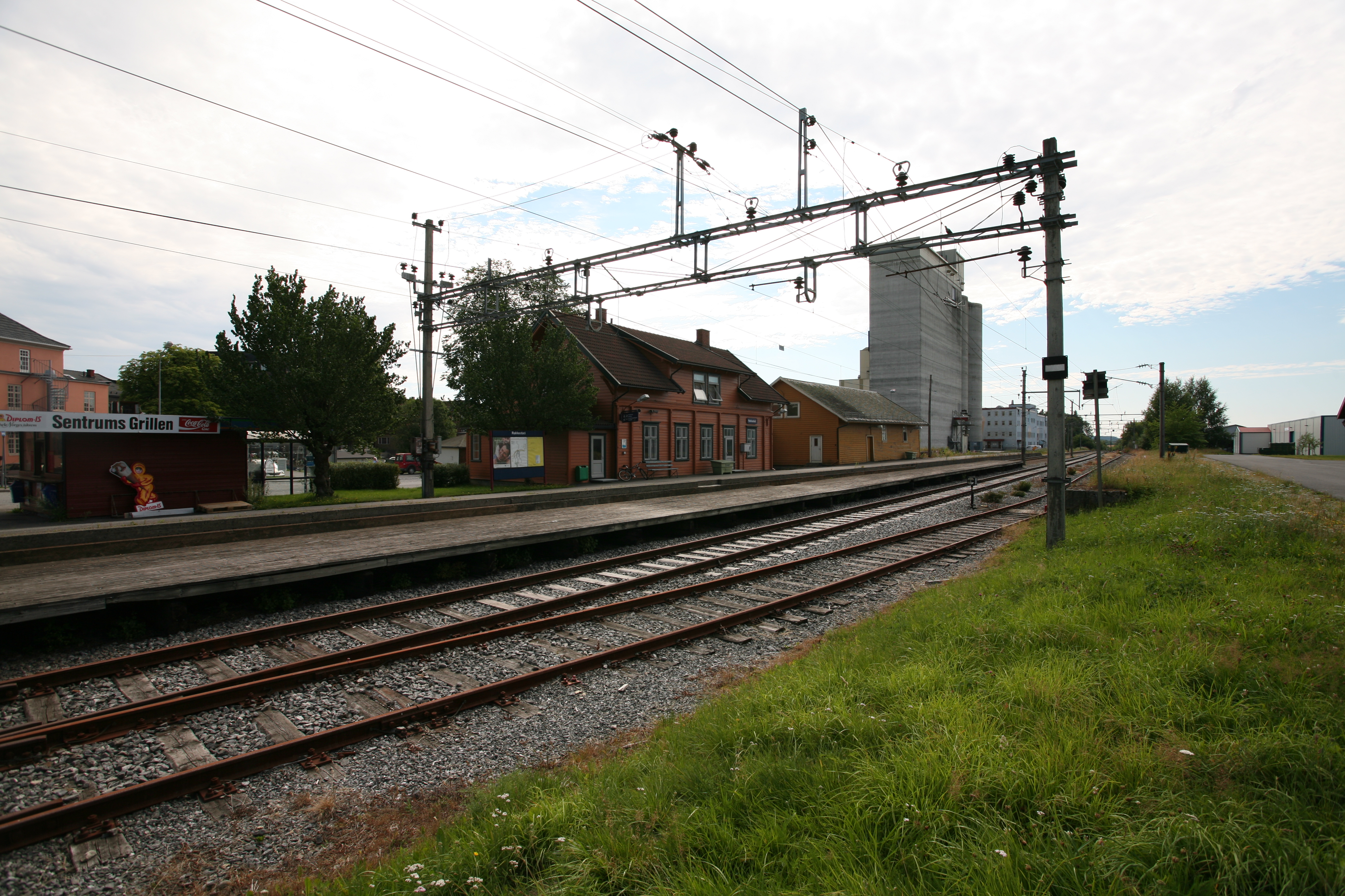 Picture of Rakkestad Railway Station (Norway)